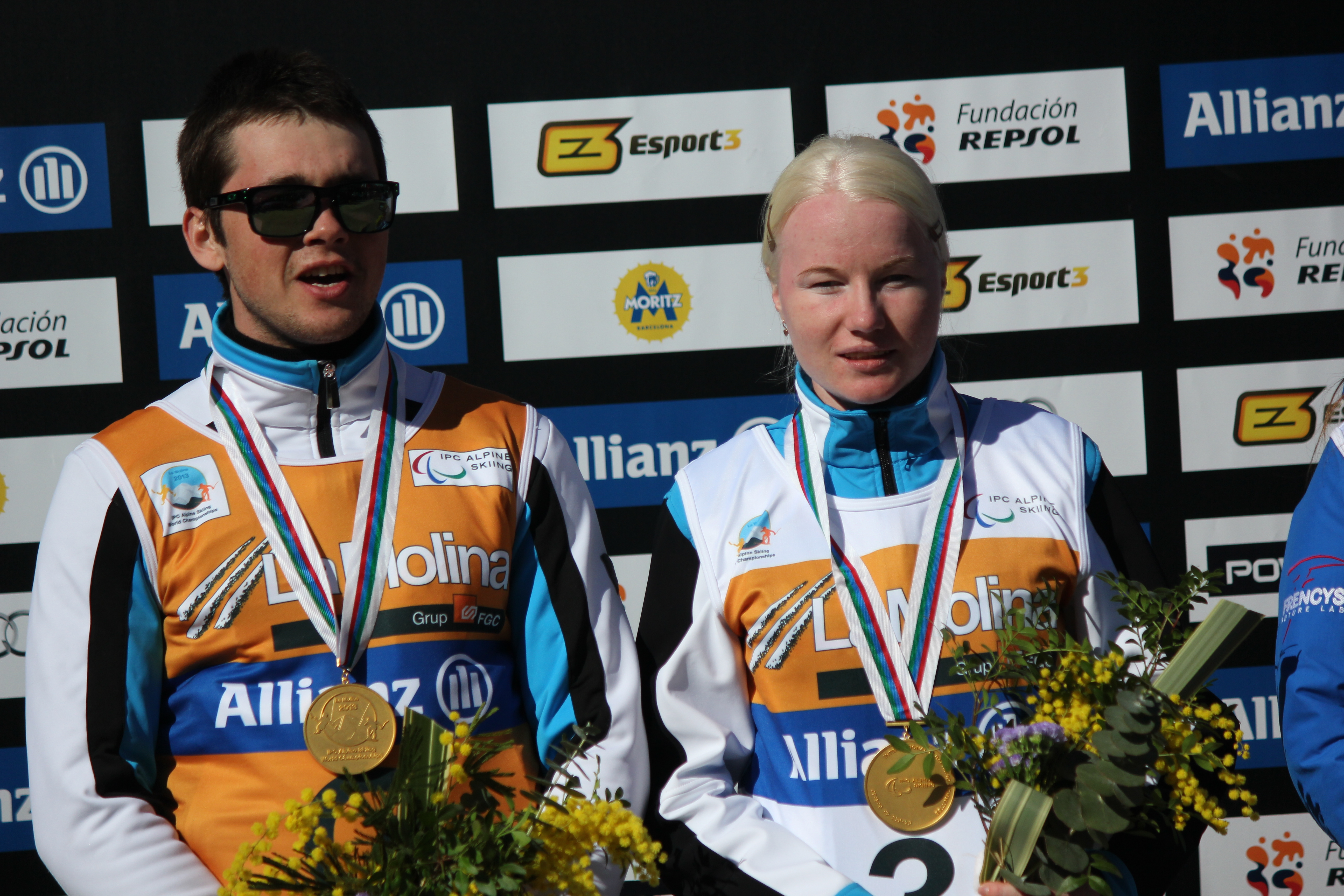 Alexandra Frantseva and guide, gold medal at 2013 IPC Alpine World Championships in La Molina Spain. Super G, visually impaired.